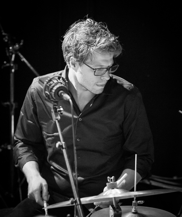 Hermund Nygård performs with Per Husby Dedications Orchestra at the stage of Nasjonal Jazzscene Victoria. The concert was part of the Oslo Jazz Festival in Norway and took place on 18. August 2016. Lineup: Karin Krog (vocal) Hermund Nygård (drums) Jens Fossum (double bass) Helge Lien (piano) Daniel Herskedal (tuba) Trude Eick (horn) Kristoffer Kompen (trombone) Eirik Eilertsen (trumpet) Ole Jørn Myklebust (trumpet) Kasper Værnes (saxophone) Knut Riisnæs (saxophone) Håvard Fossum (saxophone) Nils Jansen (saxophone) Per Husby (bandleader)